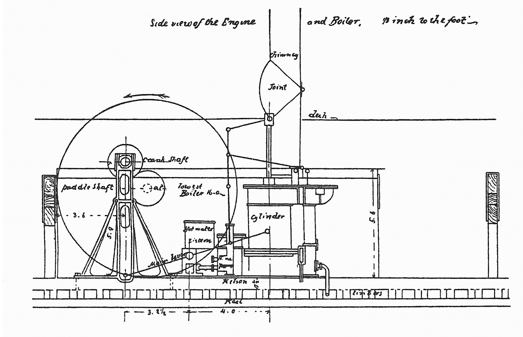 Longitudinal section of the engine room of the german steamship “Die Weser” from 1817.